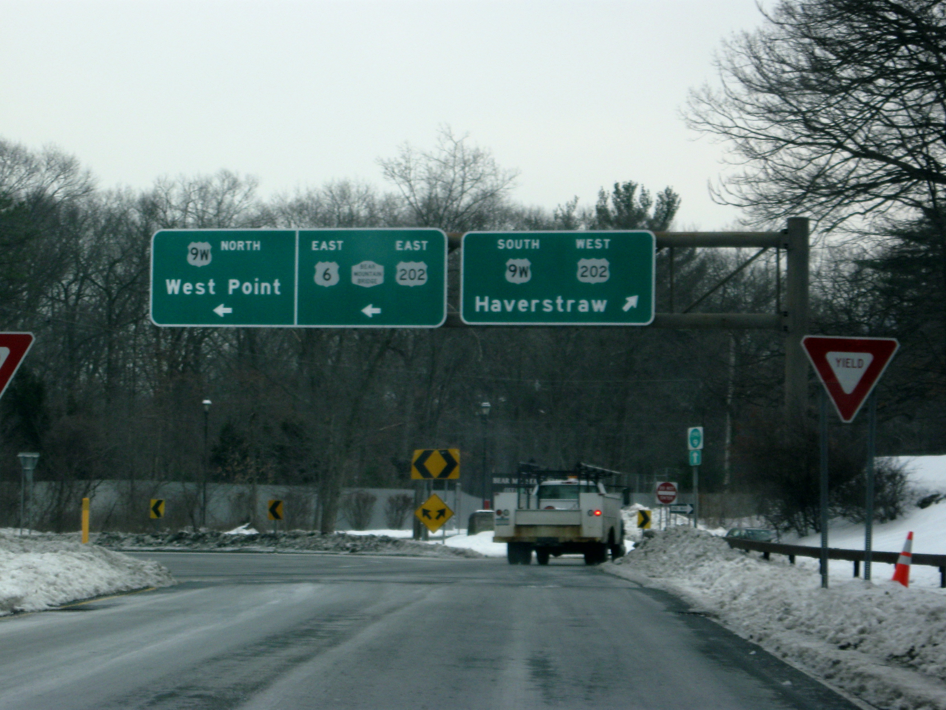 Eastbound within the Bear Mountain Traffic circle just after the end of the Palisades Interstate Parkway comes to an end, where US 6 takes the overlap of US 202 away from US 9W on a snowy day at the northern edge of Bear Mountain State Park on a snowy day. US 6-202 continues east across the Bear Mountain Bridge where they split up between Peekskill and Brewster then run through Conneticut, while US 9W heads north through West Point, Newburgh, Kingston and finally to Albany.